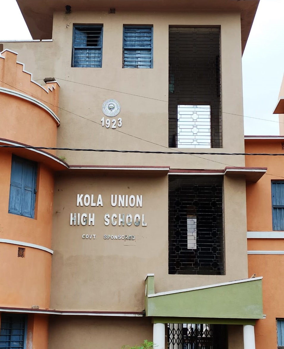 School